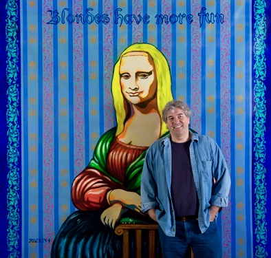 Roland Muri, 2014 in front of "blondes have more fun" 200 x 200 cm, acrylic/oil on canvas